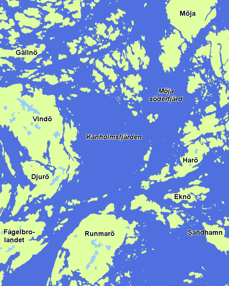 Kanholmsfjärden with surroundings.